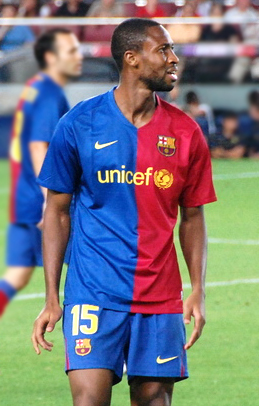 A photo of Seydou Keita in Joan Gamper Trophy, 2008. I cropped his photo so it would fit into articles